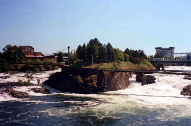 Spokane river as it flows past Canada Island in Downtown Spokane, Washington.